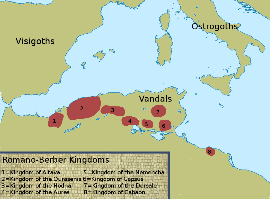 This is a selfmade copy based on figure 4.2 from the book "Vandals, Romans and Berbers: New Perspectives on Late Antique North Africa" by A.H. Merrills. Originally it is from Christian Curtois' "Les Vandales et l'Afrique", p. 334. It depicts the eight Christianized Romano-Berber states during the sixth century. Based on NordNordWest's "Mediterranean Sea location map (blank)"